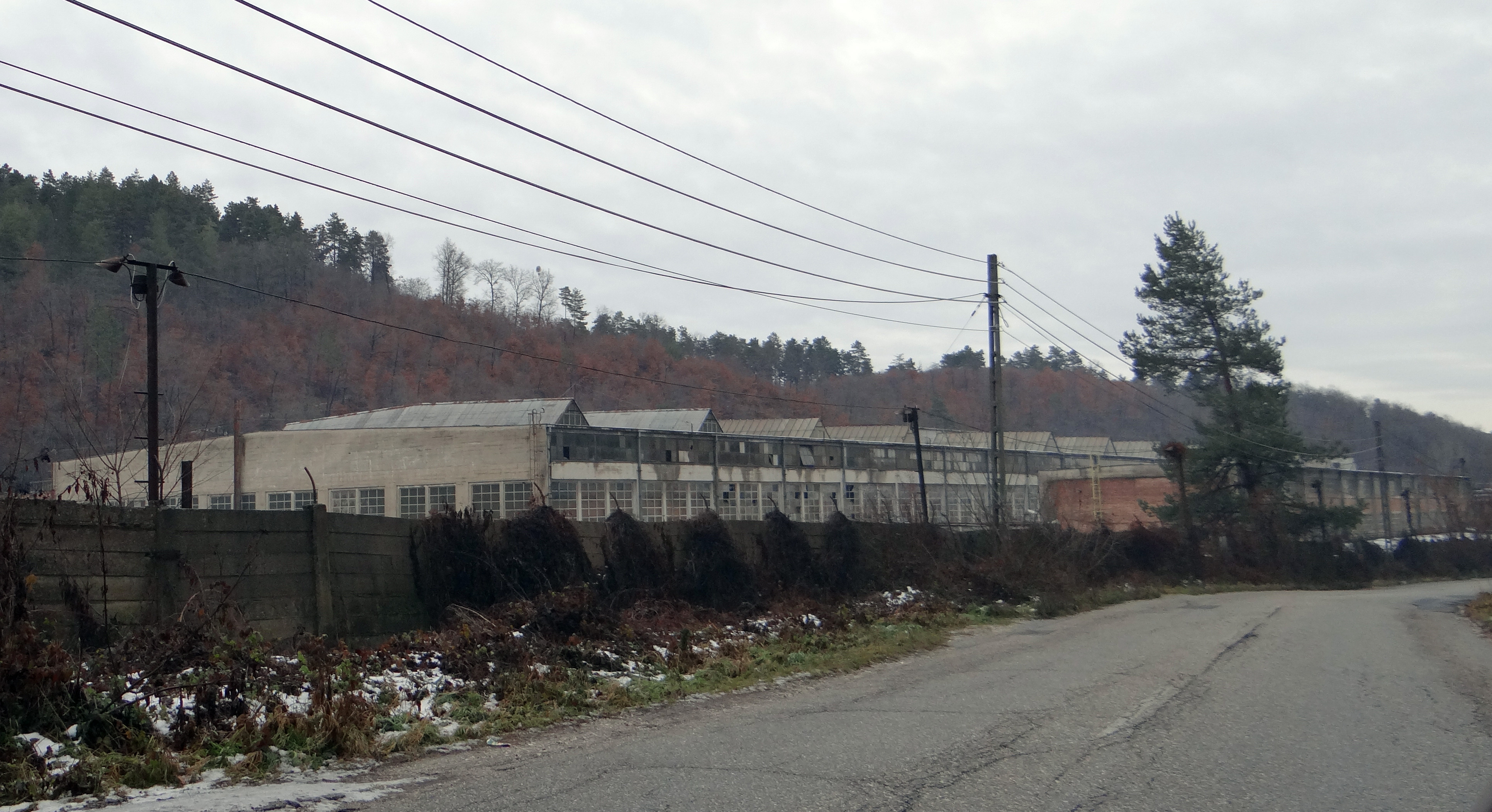 Old factory hall, Diósgyőr Machine Works (DIGÉP), Miskolc, Hungary.